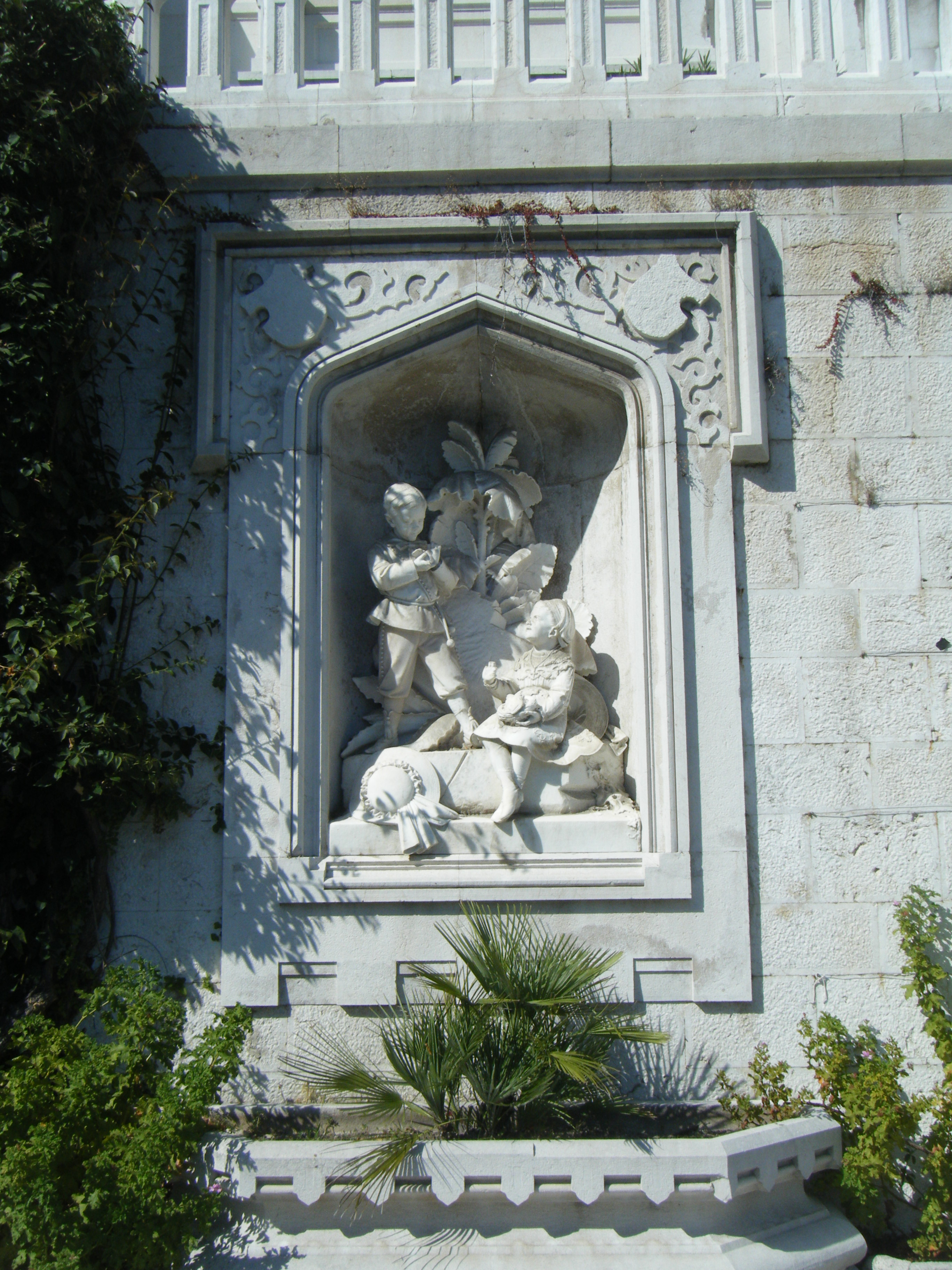 Von Derwies' children